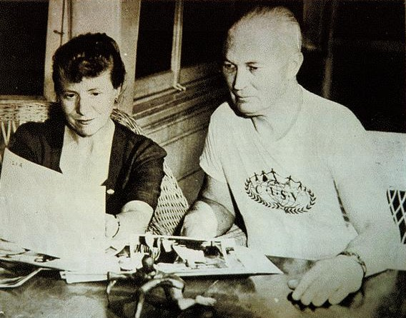 Dr. Doris Allen, founder of CISV, and her husband Eratus "Rusty" Allen, picture taken in 1951.